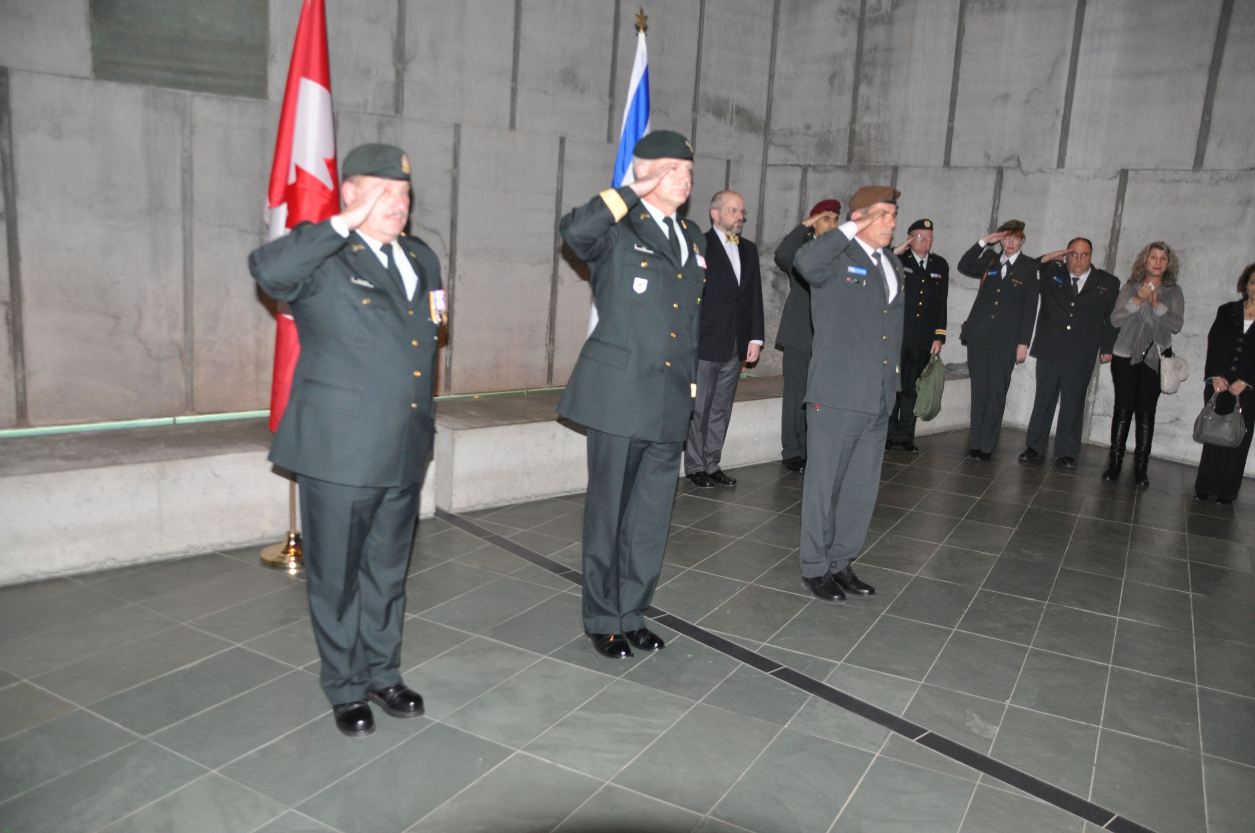 November 16, 2010. IDF Chief of the General Staff, Lt. Gen. Gabi Ashkenazi, visited the Canadian War Museum yesterday and laid a flower bouquet on the Canadian Military's Tomb of the Unknown Soldier. Speaking in the ceremony was a female officer of the Canadian military, who is Jewish and a Reform rabbi. Lt. Gen. Gabi Ashkenazi also met with his Canadian counterpart, General Walter Natynczyk, Chief of the Defense Staff of the Canadian Forces yesterday. The meeting took place as part of a series of work-related visits by the IDF Chief of Staff in Canada and the United States. הרמטכ"ל, רא"ל גבי אשכנזי, ביקר ביום ב' במוזיאון המלחמה בקנדה והניח זר על קבר החייל האלמוני של צבא קנדה. בטקס נשאה דברים קצינה מצבא קנדה, שהינה יהודיה ורבה רפורמית. רא"ל גבי אשכנזי אף התארח אמש אצל עמיתו המקצועי מפקד צבא קנדה, גנרל וולט ג'יי נטינצ'יק. הפגישה הינה חלק מסדרת פגישות מקצועיות אשר עורך הרמטכ"ל בארה"ב וקנדה.